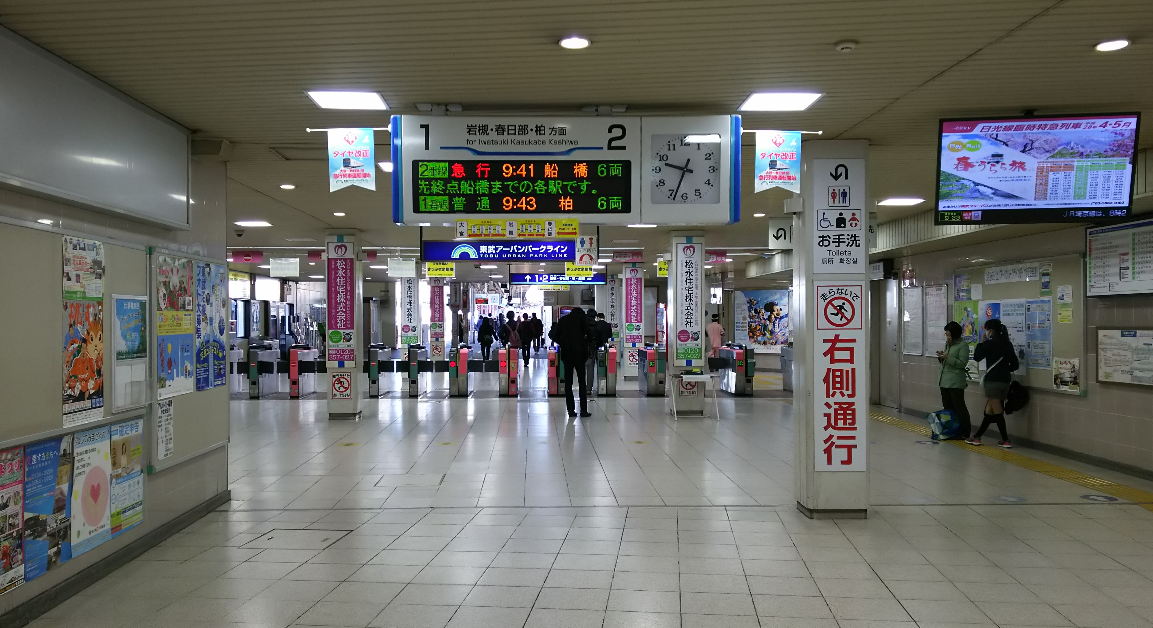 The Tobu ticket barriers at Omiya Station in Saitama Prefecture, Japan